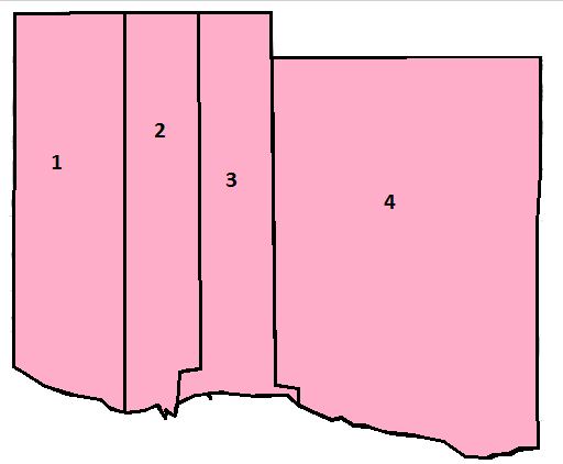 Map of Clarington, Ontario's four wards